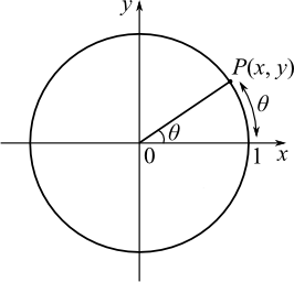 A point with coordinates (x,y) and unit circle; an angle θ in unit circle.